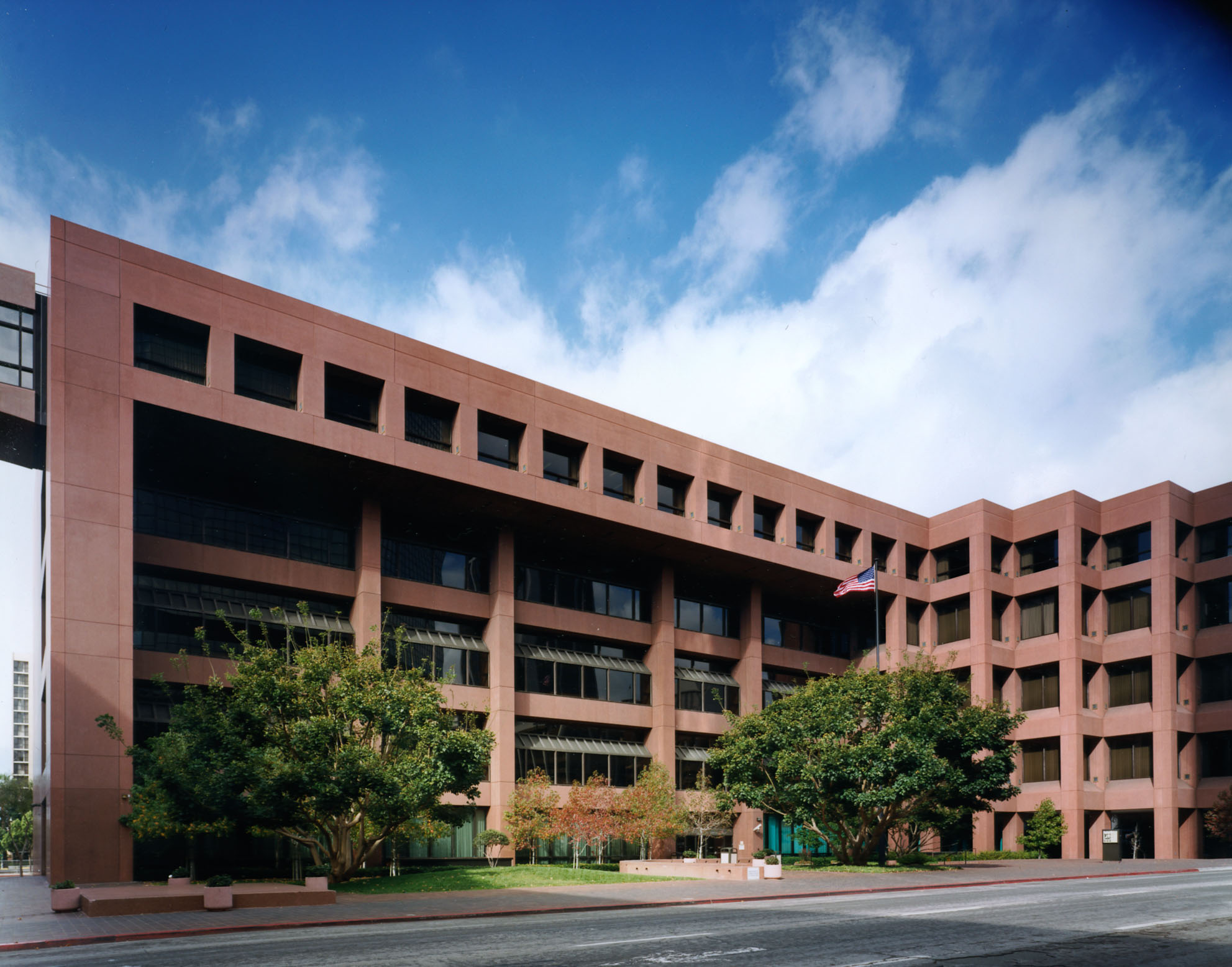 Edward J. Schwartz United States Courthouse — serving a United States district court in San Diego, California.